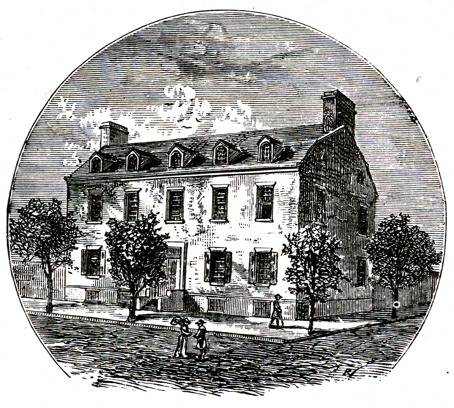 Engraving of Union College in 1795